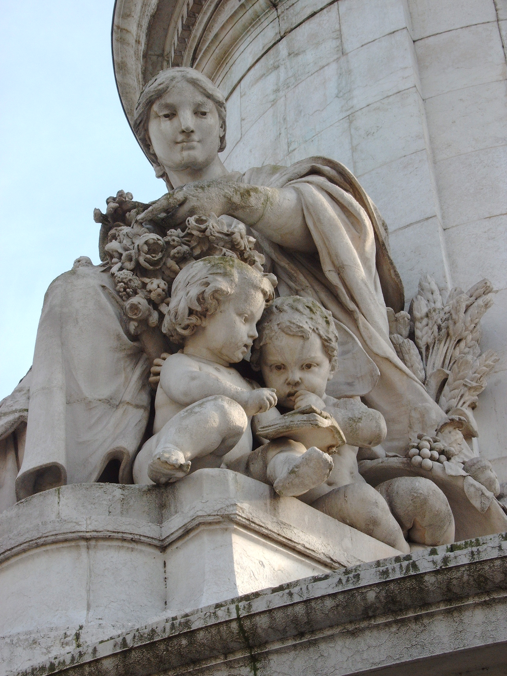 Statue of Fraternity